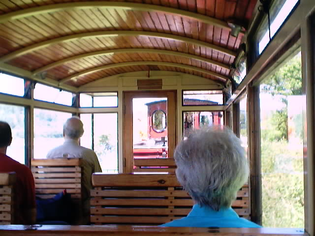 Carriage interior, Brecon Mountain Railway Wooden ceiling panelling and wooden seats in a carriage on the Brecon Mountain Railway. The locomotive that can be seen through the front of the carriage is Graf Schwerin-Lowitz.